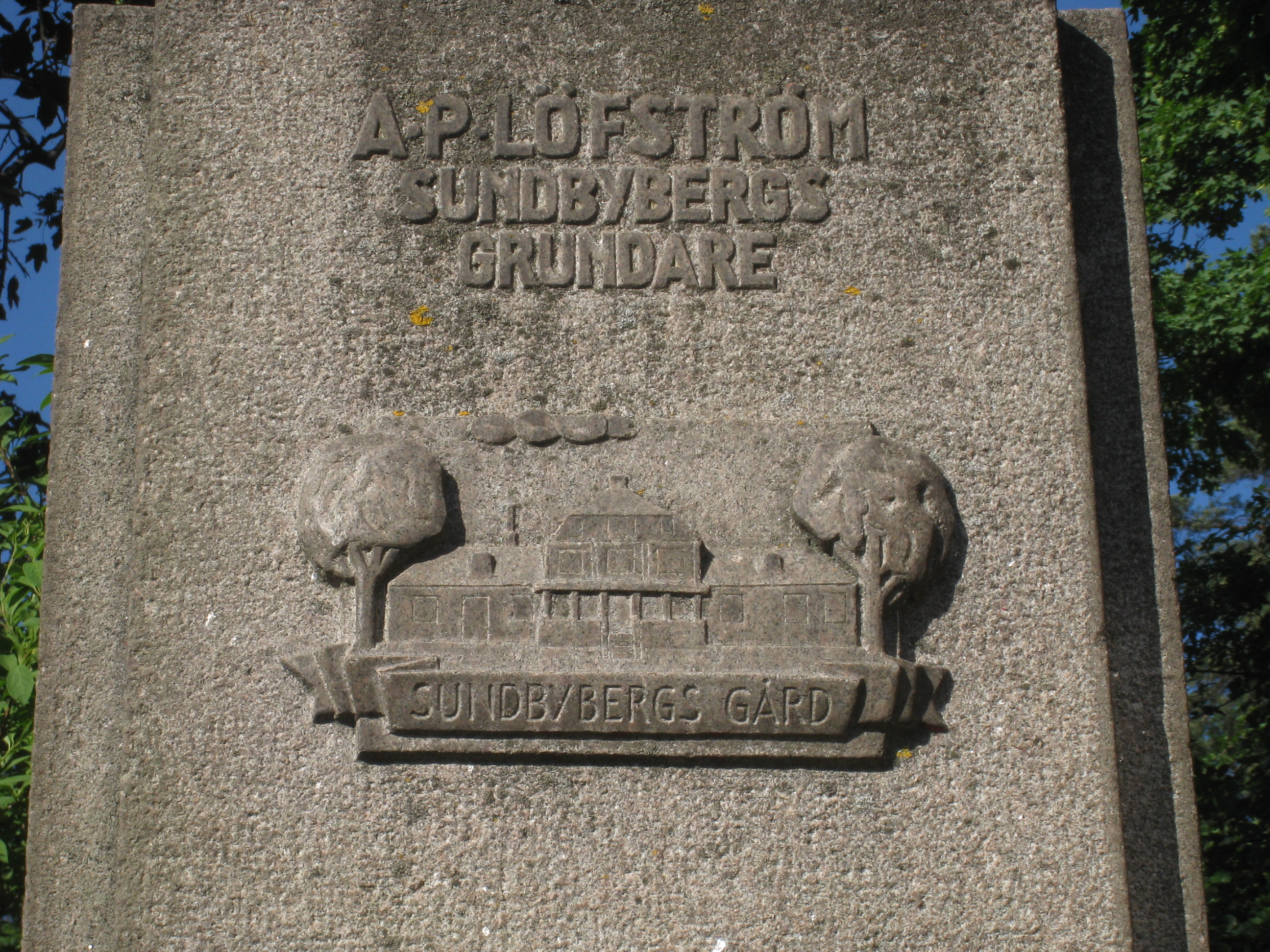 Anders Petter Löfström, founder of Sundbyberg, the base, sculpture by Carl Fagerberg.